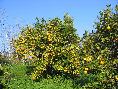 A citrus grove of Rodi Garganico